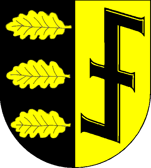 Coat of arms of the municipality Dassendorf in Schleswig-Holstein, Germany.